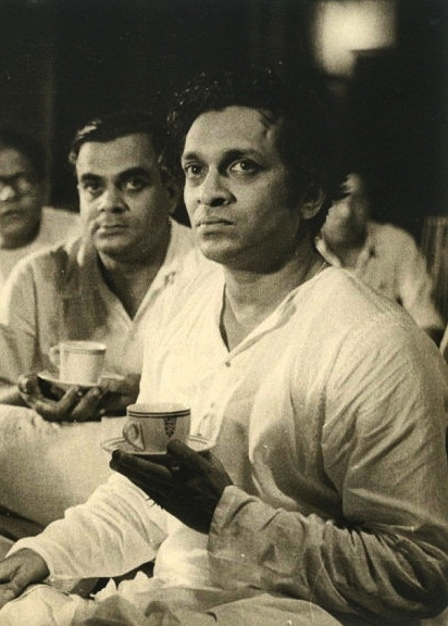 Ravi Shankar and colleagues holding cups of tea